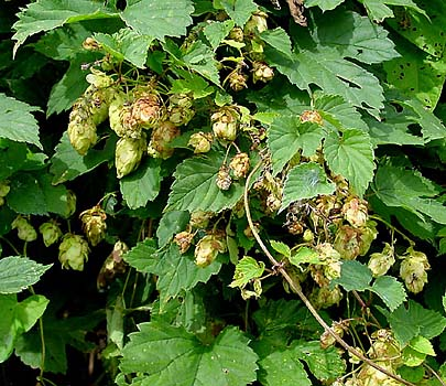 hop of humulus lupulus (foto van Wouter Hagens)